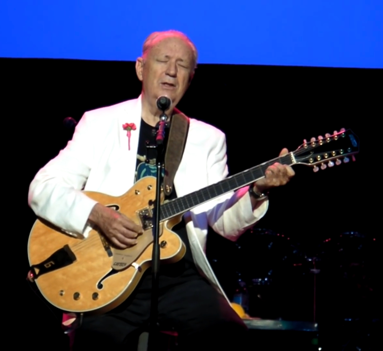 Michael Nesmith live 2016